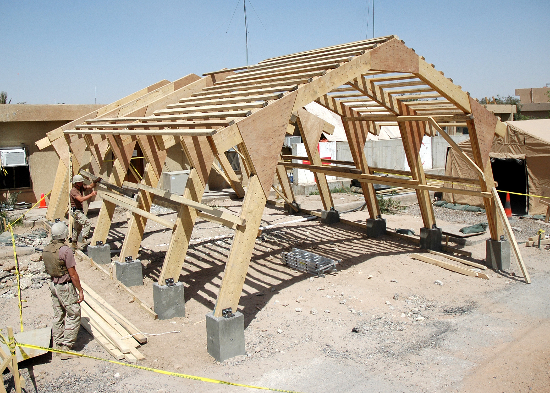 Camp Fallujah, Iraq (April 3, 2005) – Seabees assigned to Naval Mobile Construction battalion One (NMCB-1), Air Detachment, work to construct a canopy for the Fallujah Surgical Facility at Camp Fallujah, Iraq. NMCB-1’s Air Detachment is currently deployed in Iraq in support of Operation Iraqi Freedom (OIF). U.S. Navy photo by Photographer's Mate 1st Class Donny M. Forbes (RELEASED)